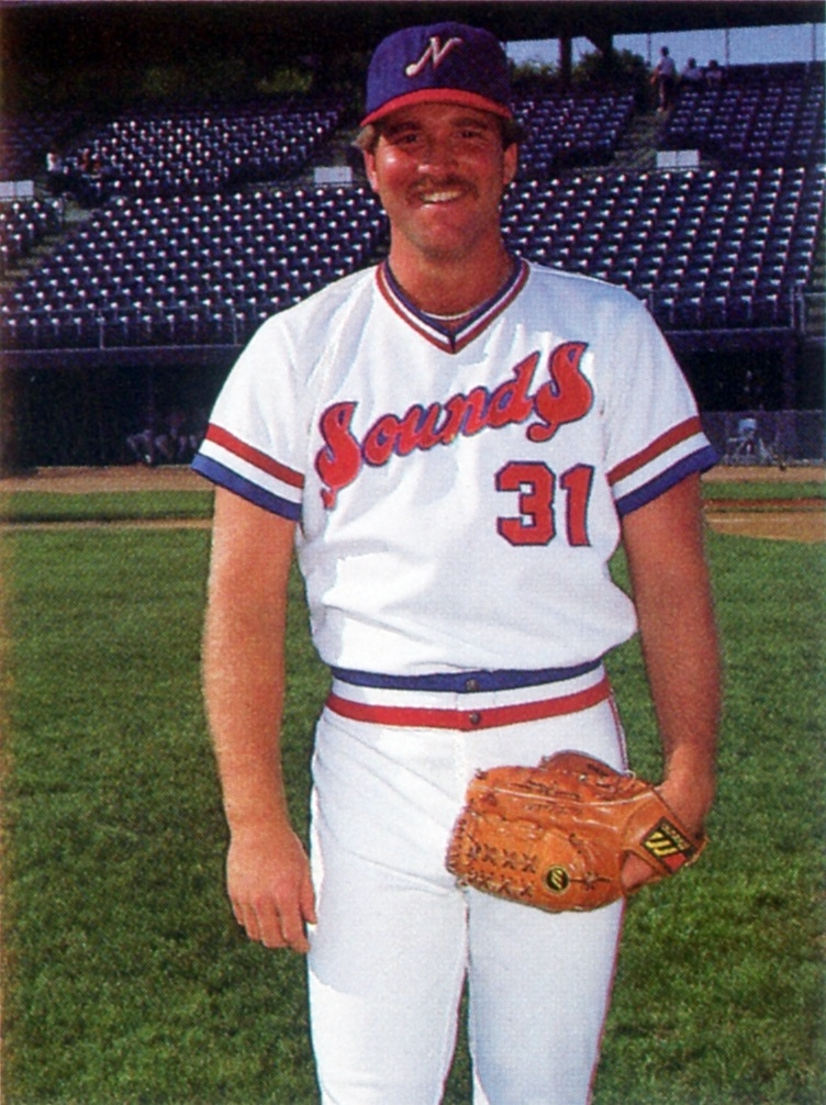 Pitcher Bryan Kelly of the 1985 Nashville Sounds Minor League Baseball team of the American Association